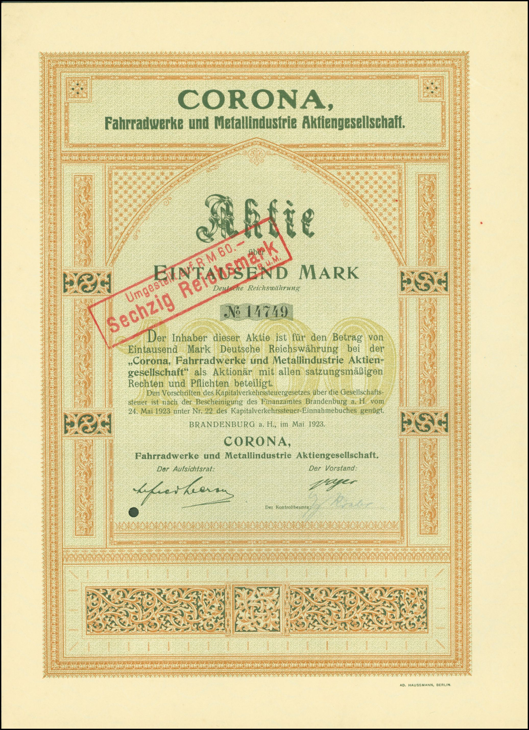 Share of the Corona Fahrradwerke und Metallindustrie AG, issued in May 1923